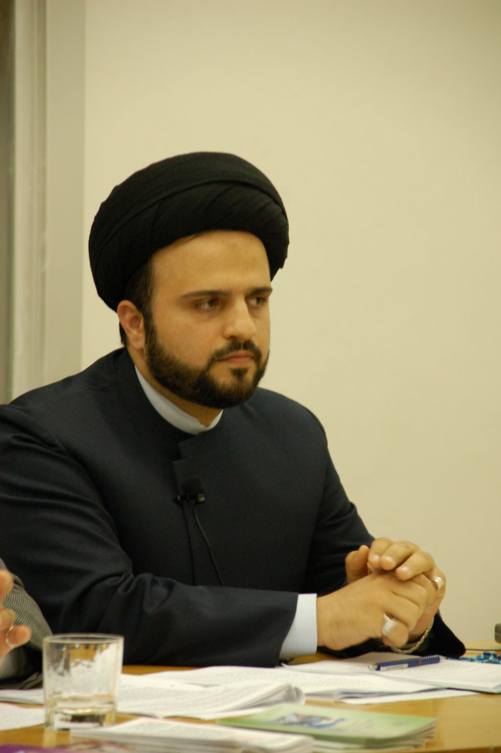 Hojjat-ul-Islam Dr. Seyyed Mahammad Nasser Taghavi